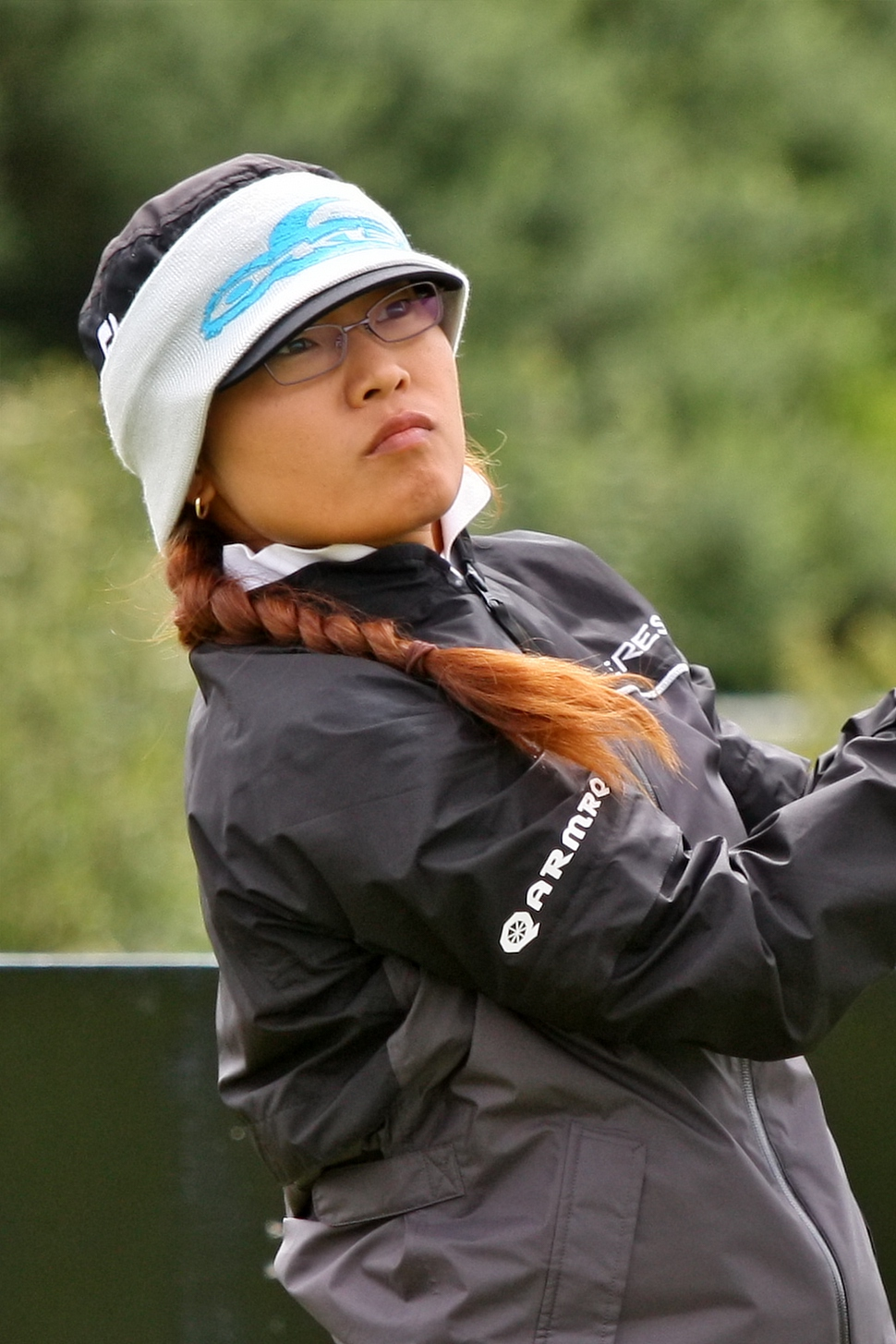 SOUTHPORT, UNITED KINGDOM – JULY 28: Kang Jimin of South Korea tees off on the 10th hole during final practice round before 2010 Ricoh Women's British Open held at Royal Birkdale on July 28, 2010 in Southport, England. (Photo by Wojciech Migda)